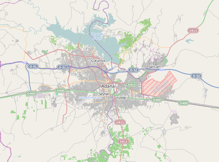 Map of the road network of Adana from Openstreetmap.